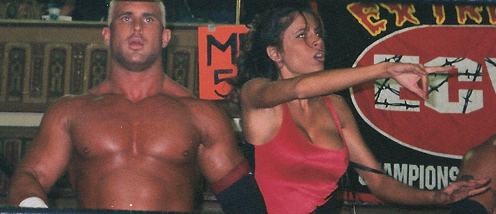 Professional wrestler Chris Candido (left) and valet Francine in 1998.